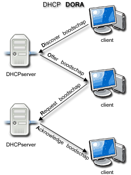 DHCP DORA process= DHCP (D)iscover DHCP (O)ffer DHCP (R)equest DHCP (A)ck